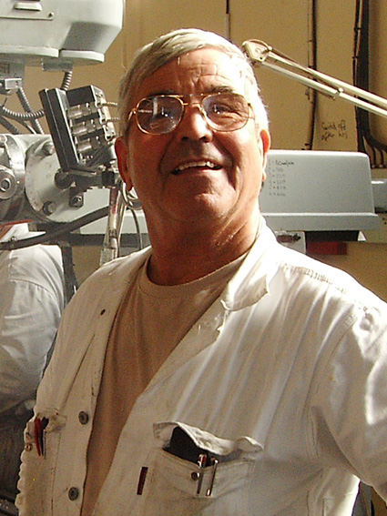 Businessman and industrialist Hans Herrmann in his workshop at Hasing Engineering, in Saldanha, South-Africa.